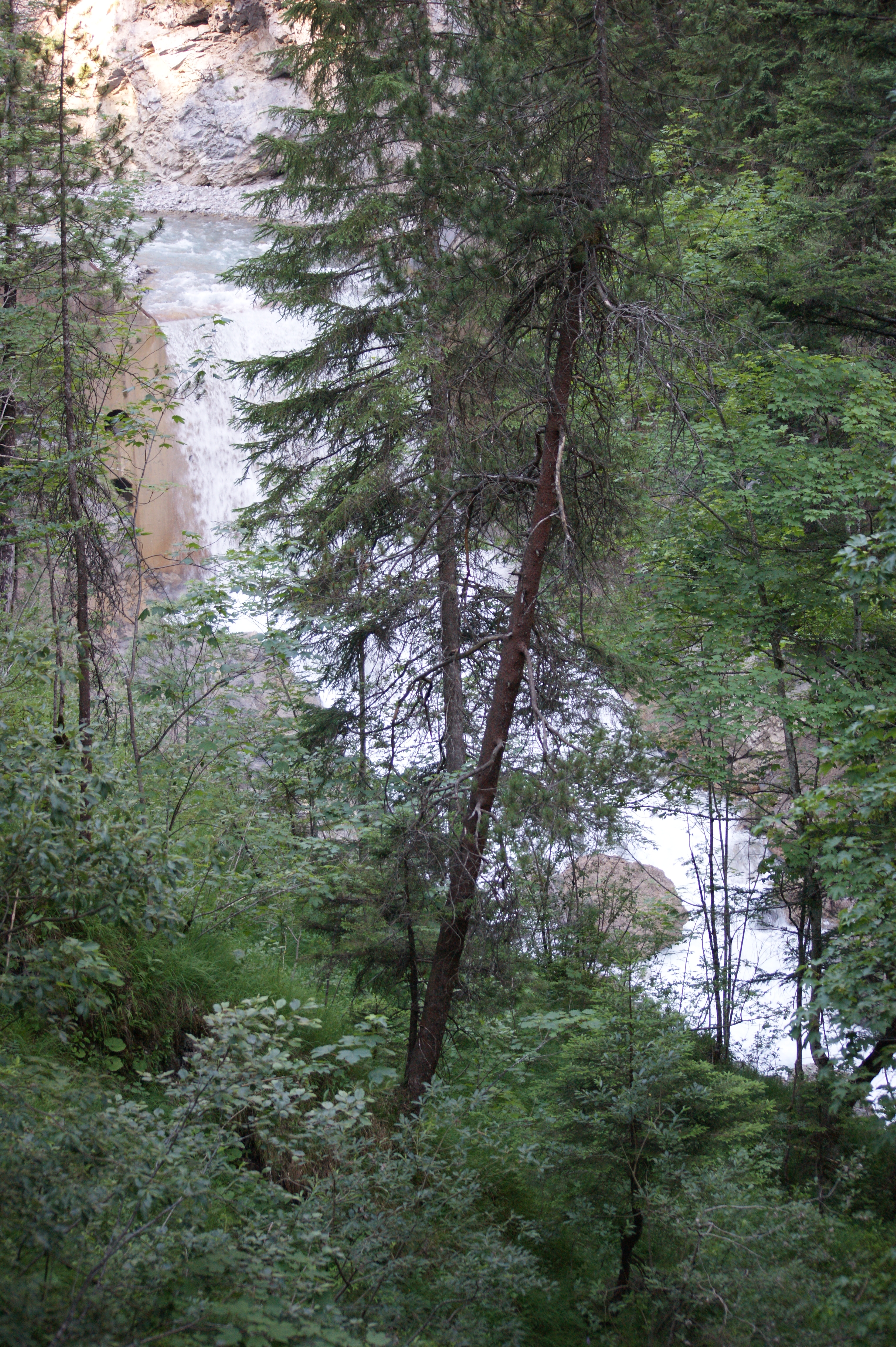 The Mengschlucht is a gorge in the municipality of Nenzing in Vorarlberg, Austria. The Mengschlucht is flowed through by the Meng and was formed mainly during the last ice age. Next to and in the gorge is the Gamperdonaweg. The street is only accessible for authorized persons and partially only single lane. There is a ban on bicycles.